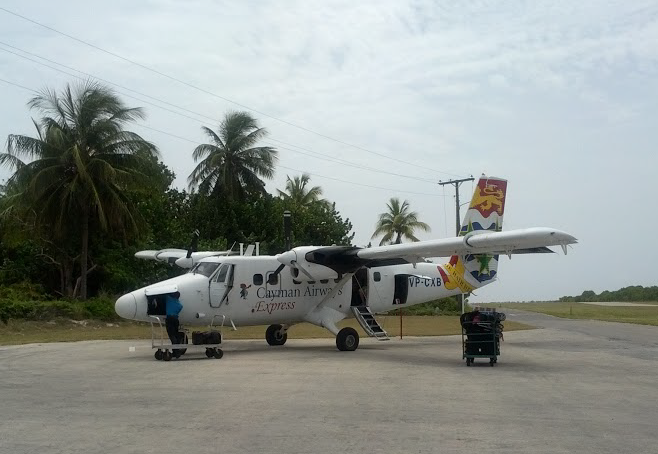 Photo of Cayman Airways Twin Otter loading baggage at Little Cayman Airport De_Havilland_Canada_DHC-6_Twin_Otter